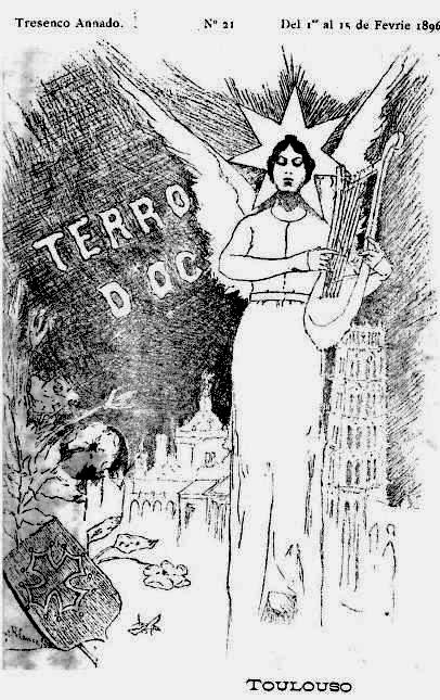 Coverpage of the Occitan review Tèrra d'òc